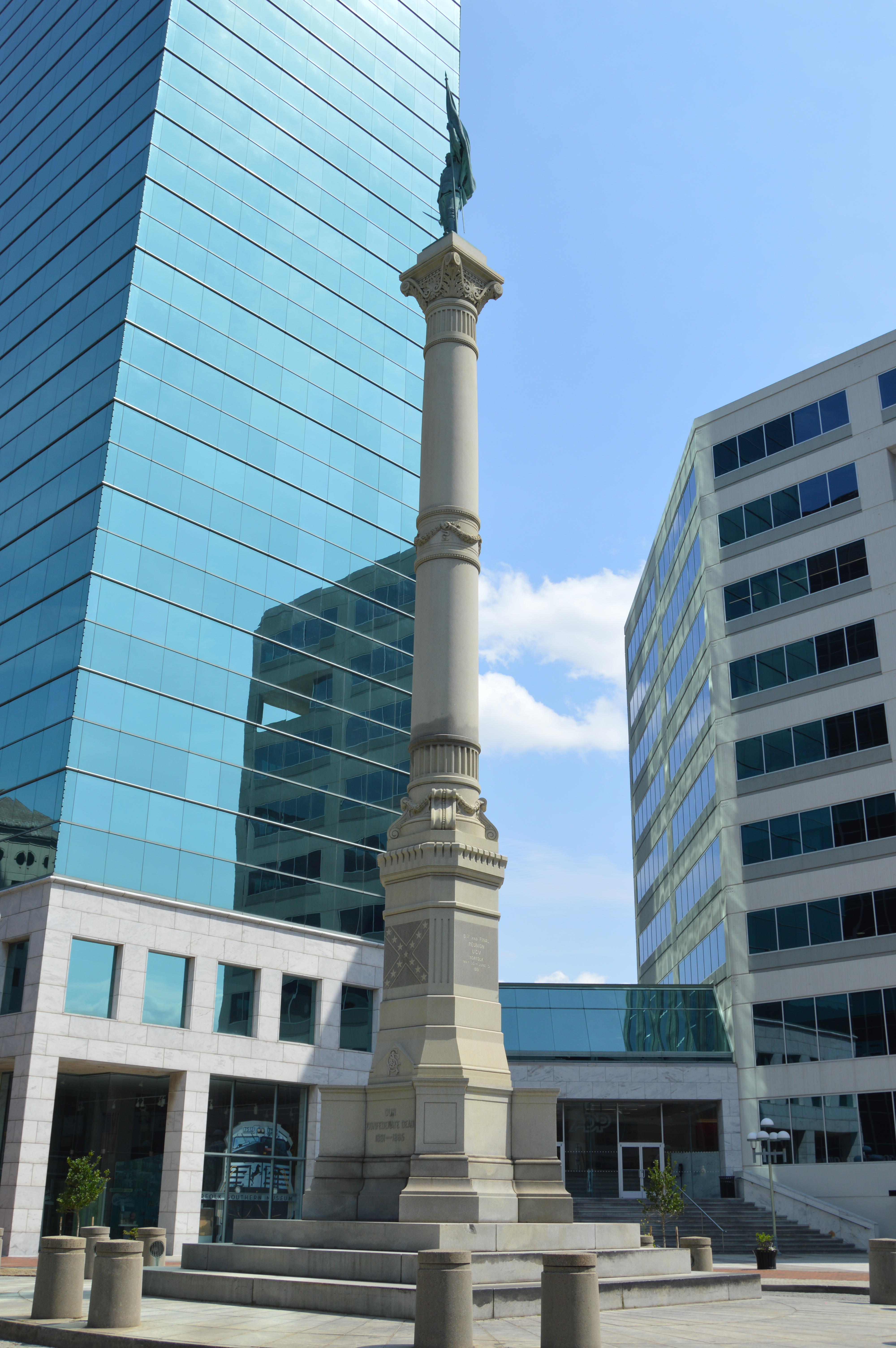 The 1907 Confederate monument on Main Street at Commercial Place in Norfolk, Virginia, United States.